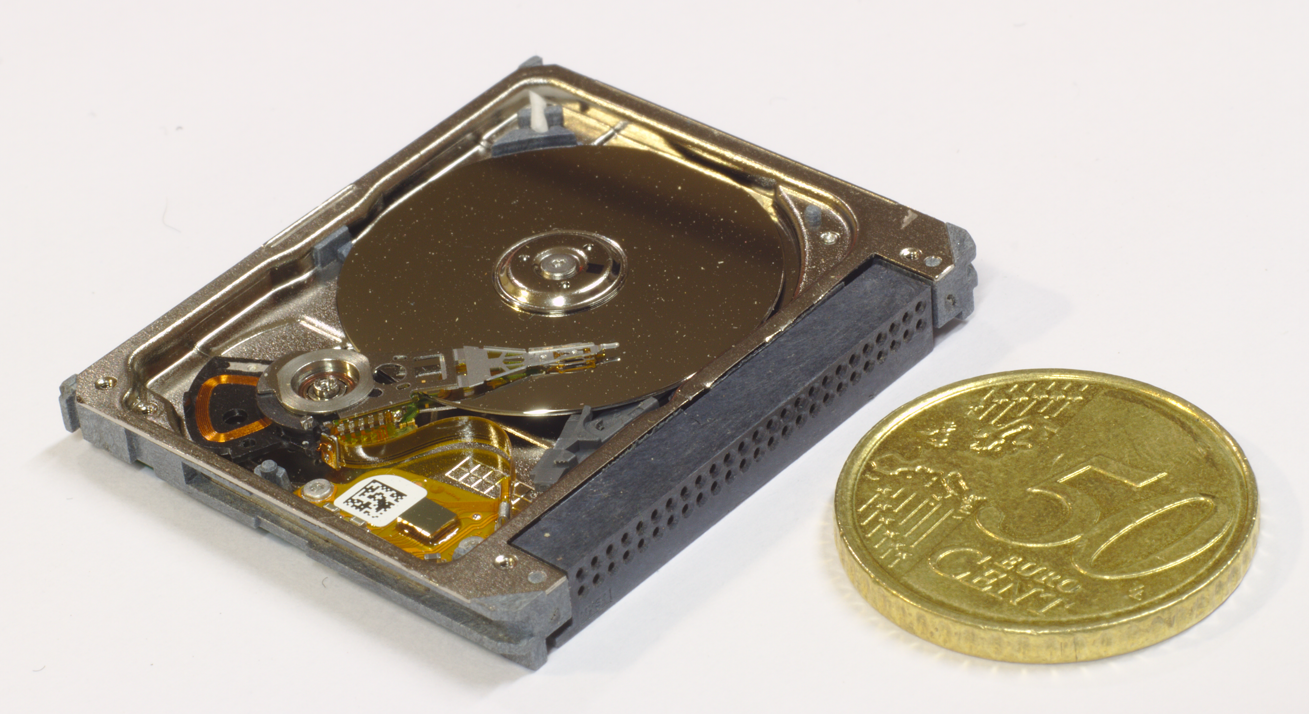 The internals of a 5 gigabyte Seagate microdrive, a miniature hard disk designed to fit in a CompactFlash Type II slot. Moem will fashion a trinket or a necklace out of this. Stoneshop had to use a 0.6mm screwdriver to unscrew the tiny screws and open the device. Pictured with a €0,50 coin for scale reference.